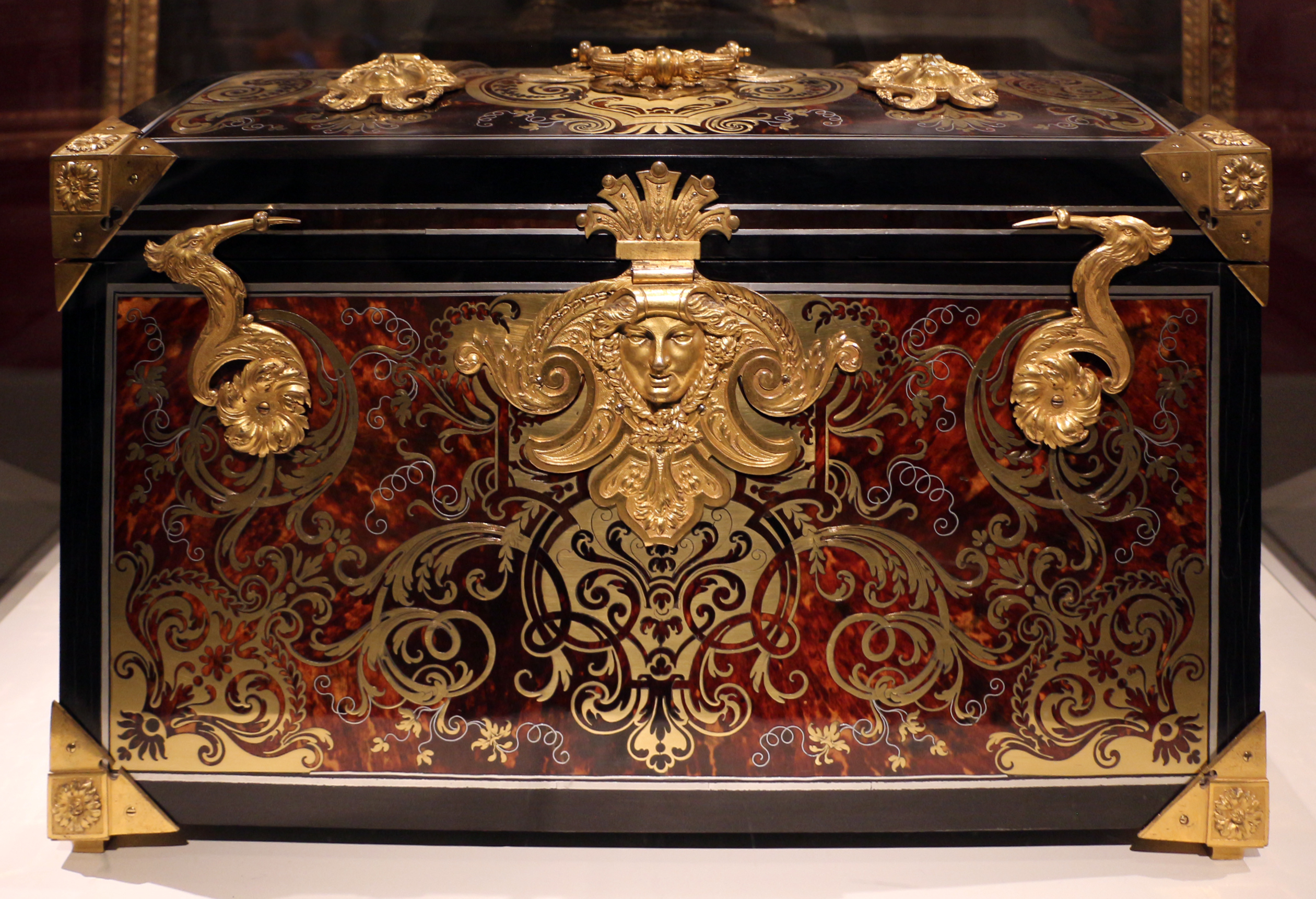 European furniture in the Art Institute of Chicago